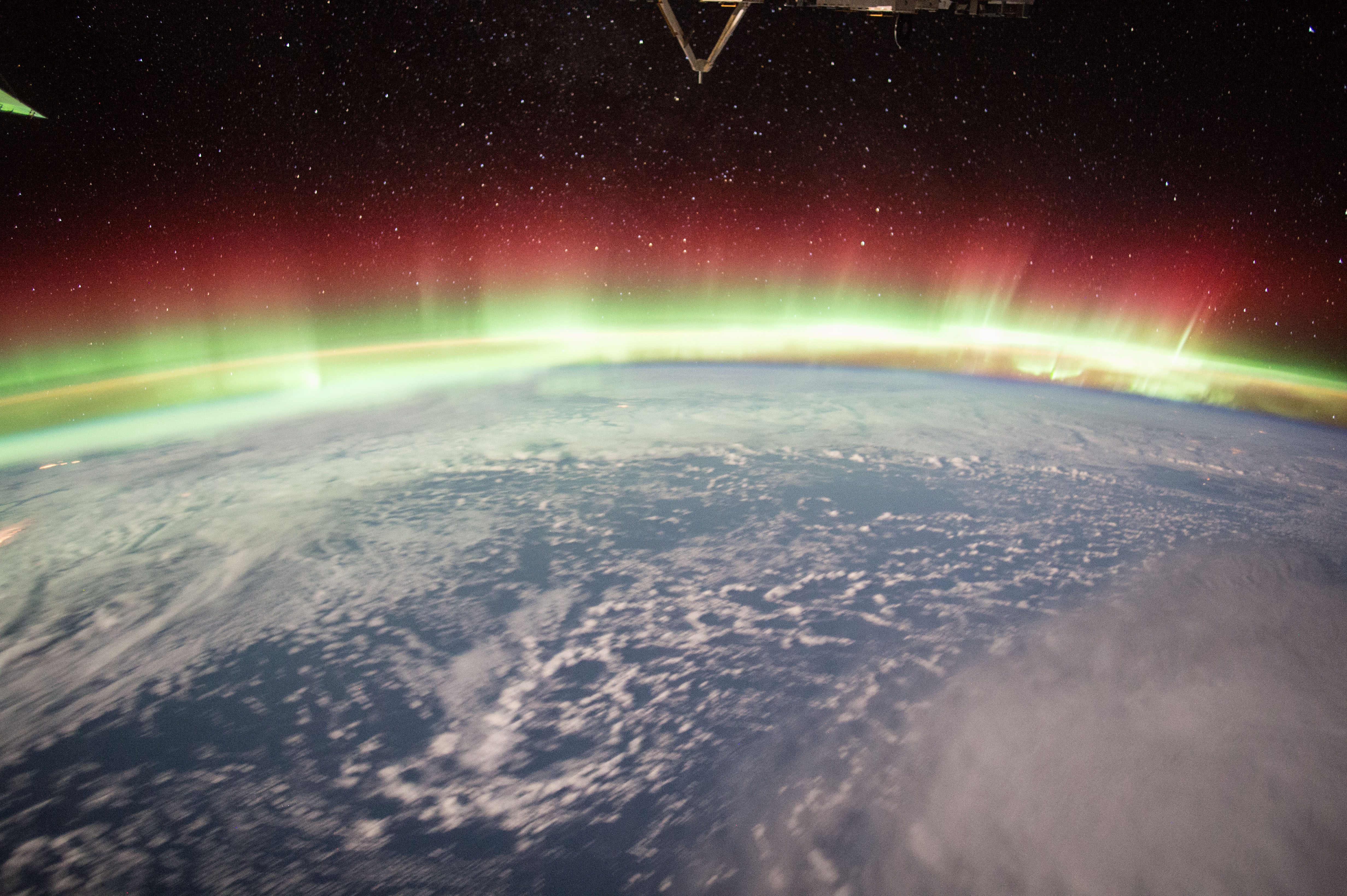 A brilliant and vivid Aurora Borealis illuminates the Earth's northern hemisphere on Jan 20, 2016, providing a spectacular view for members of Expedition 46 aboard the International Space Station.